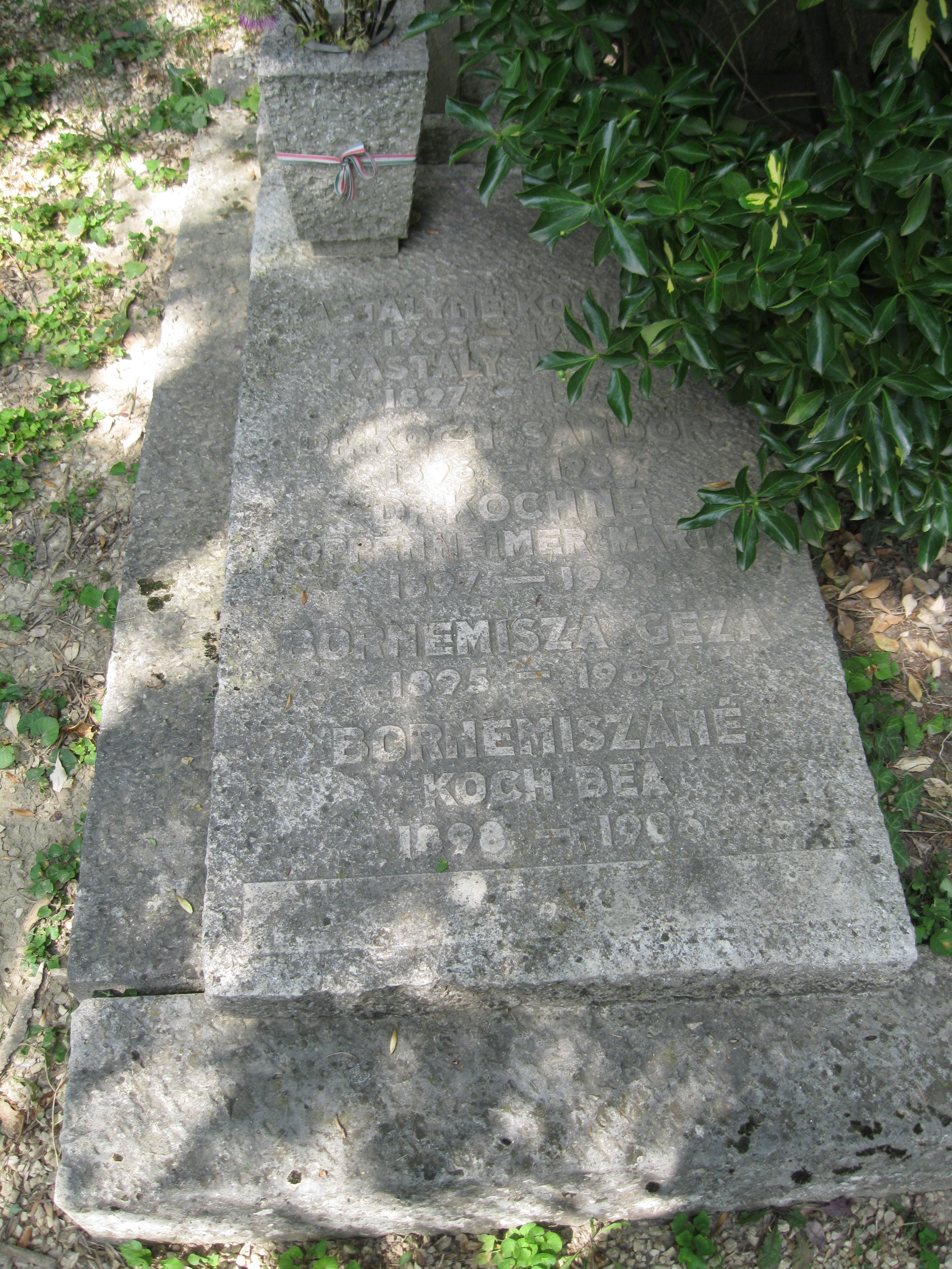 Tomb of the mineralogist Sándor Koch in Farkasréti Cemetery [7/6-1-22/23]